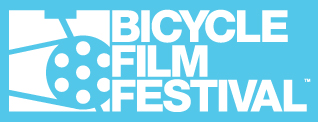 Bicycle Film Festival logo (2011)